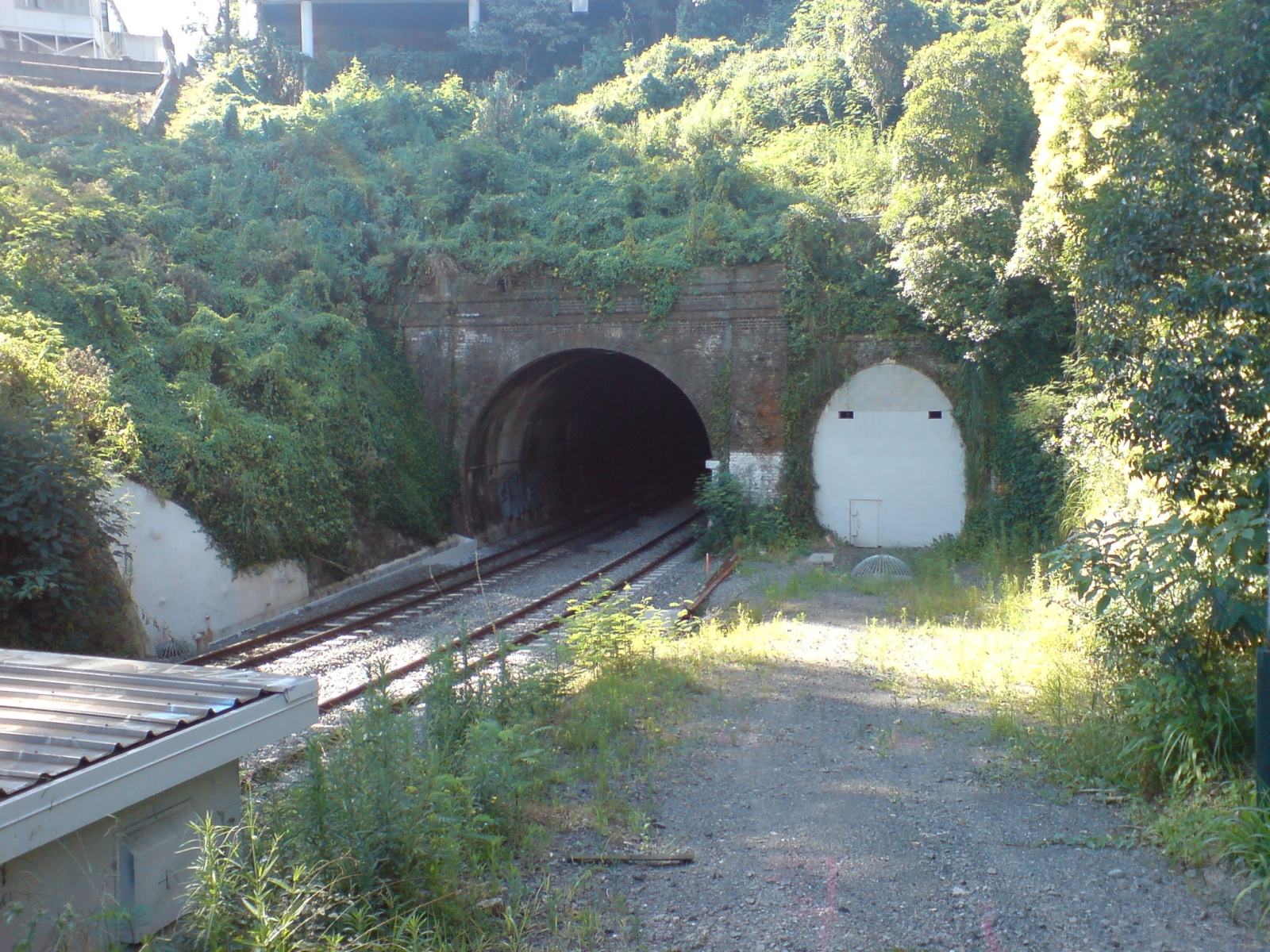 The southern portal(s) of the Parnell Tunnel in Auckland, New Zealand.